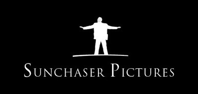 Logo for Sunchaser Pictures.